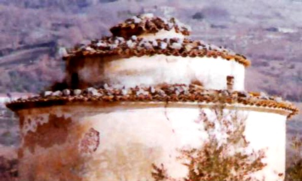 Sloping roof of the "Palombara", a dovecote tower in Alvito, Italy, before the collapse (2014-01-23).